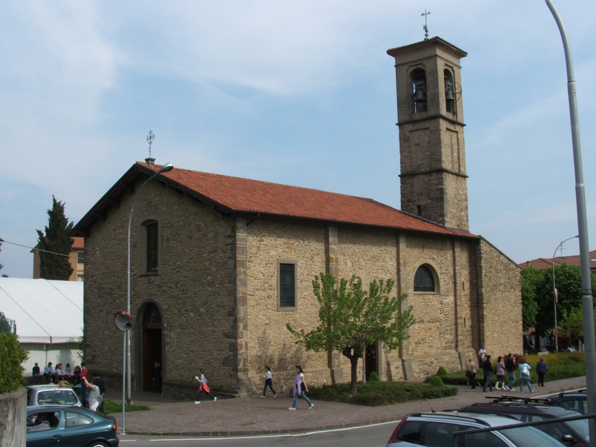 Sotto il Monte Giovanni XXIII, Bergamo, Italy - Church of Brusicco